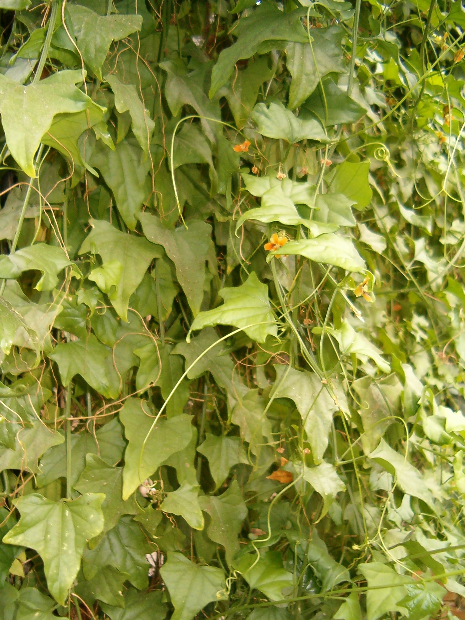 Location: Botanical Gardens Berlin Habitus, Leaves and Flowers